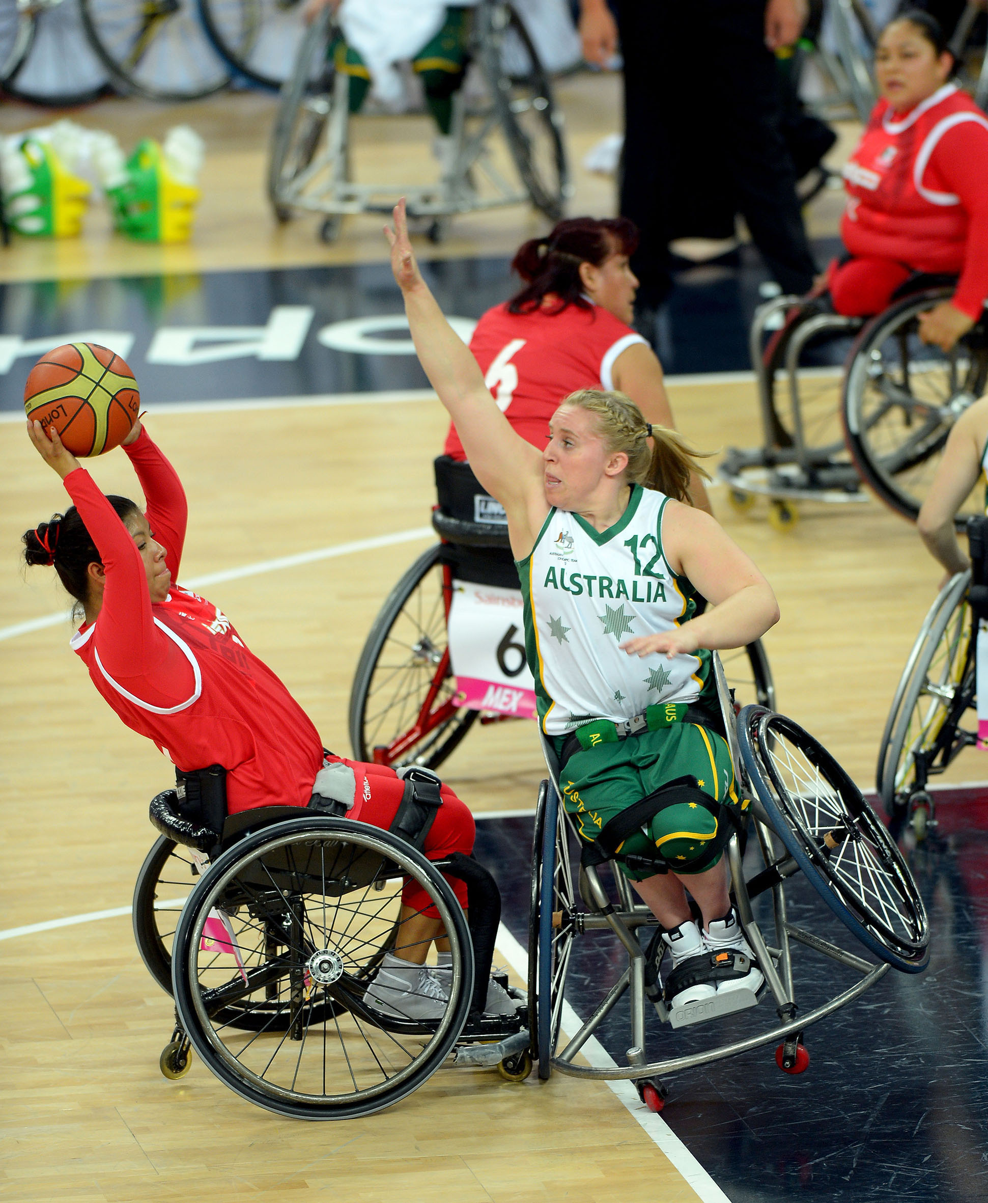 Photograph of Australian Paralympic team member Shelley Chaplin at the 2012 Summer Paralympic Games in London